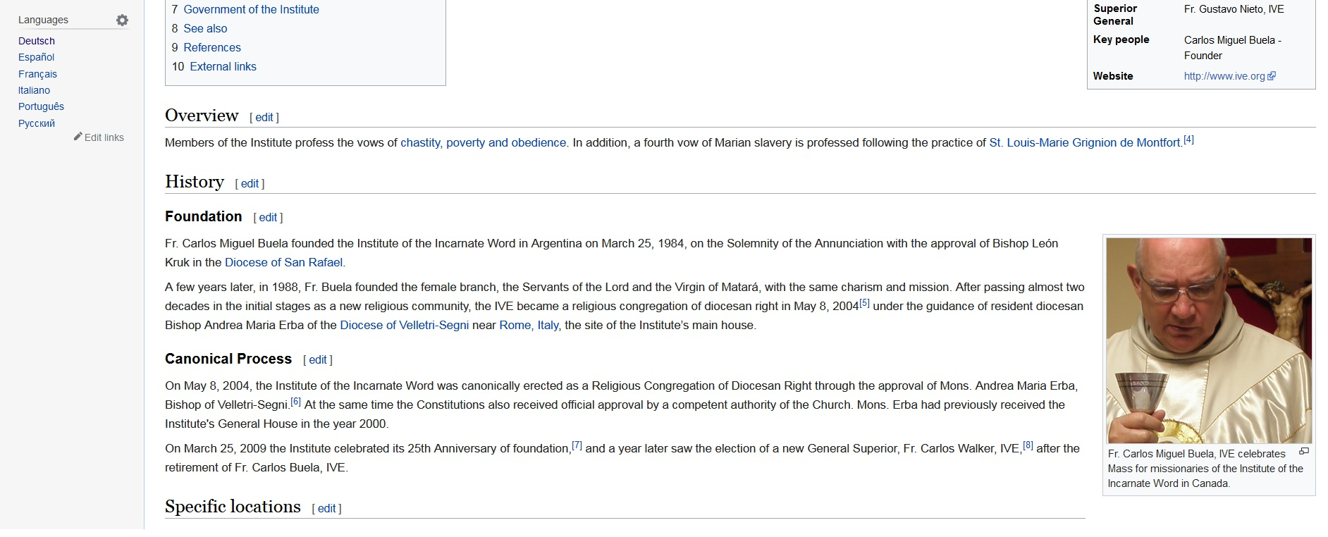 Institute of the Incarnate Word (Wipedia page)